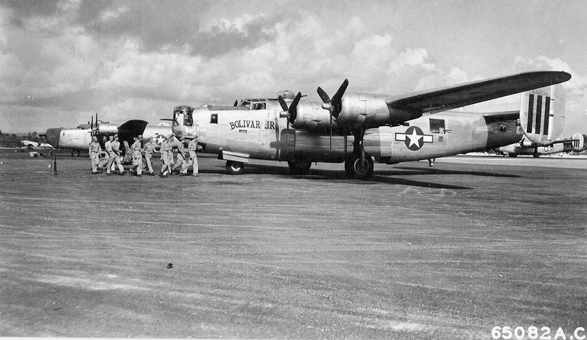 "Bolivar Jr" B-24M-20-CO Liberator s/n 44-42151 431st BS, 11th BG, 7th AF Agana Airfield, Guam, Marianas Islands on June 6, 1945.